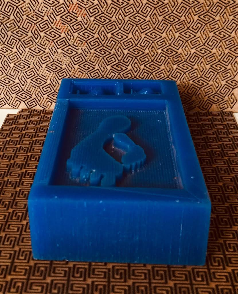 Molding